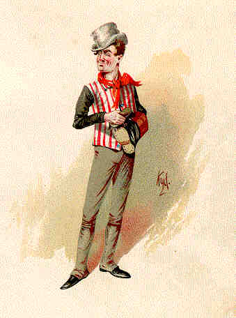 Watercolour of Sam Weller (fictional character)